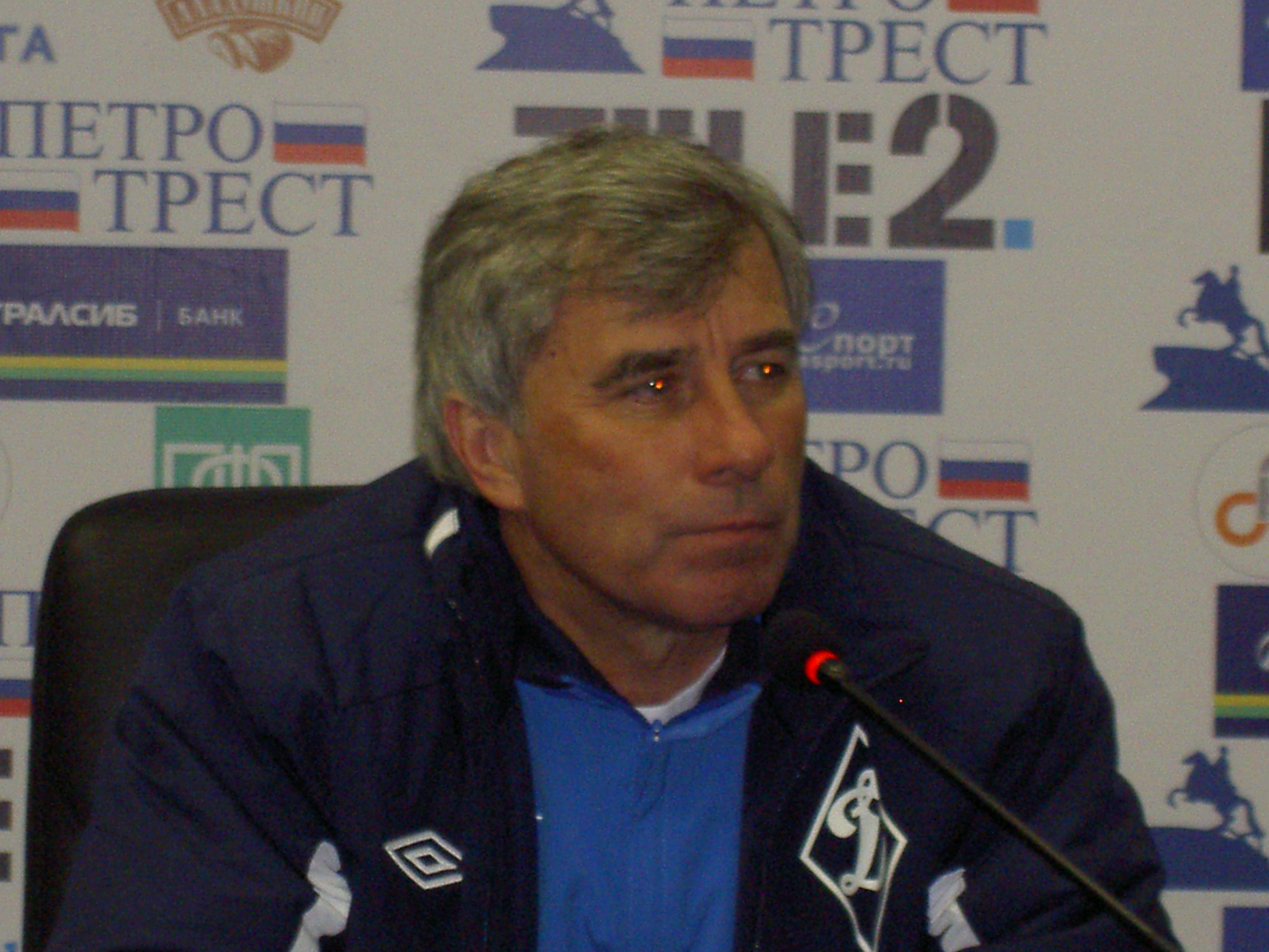 Averyanov Alexaner Nikolaevich